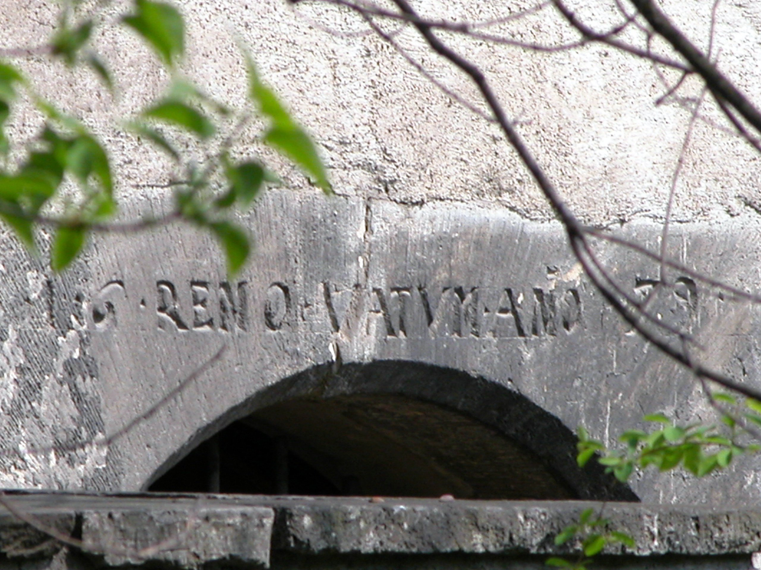 Braunschweig, Germany: St. Leonard’s Chapell, detail “16 RENOVATUM ANNO 79”.